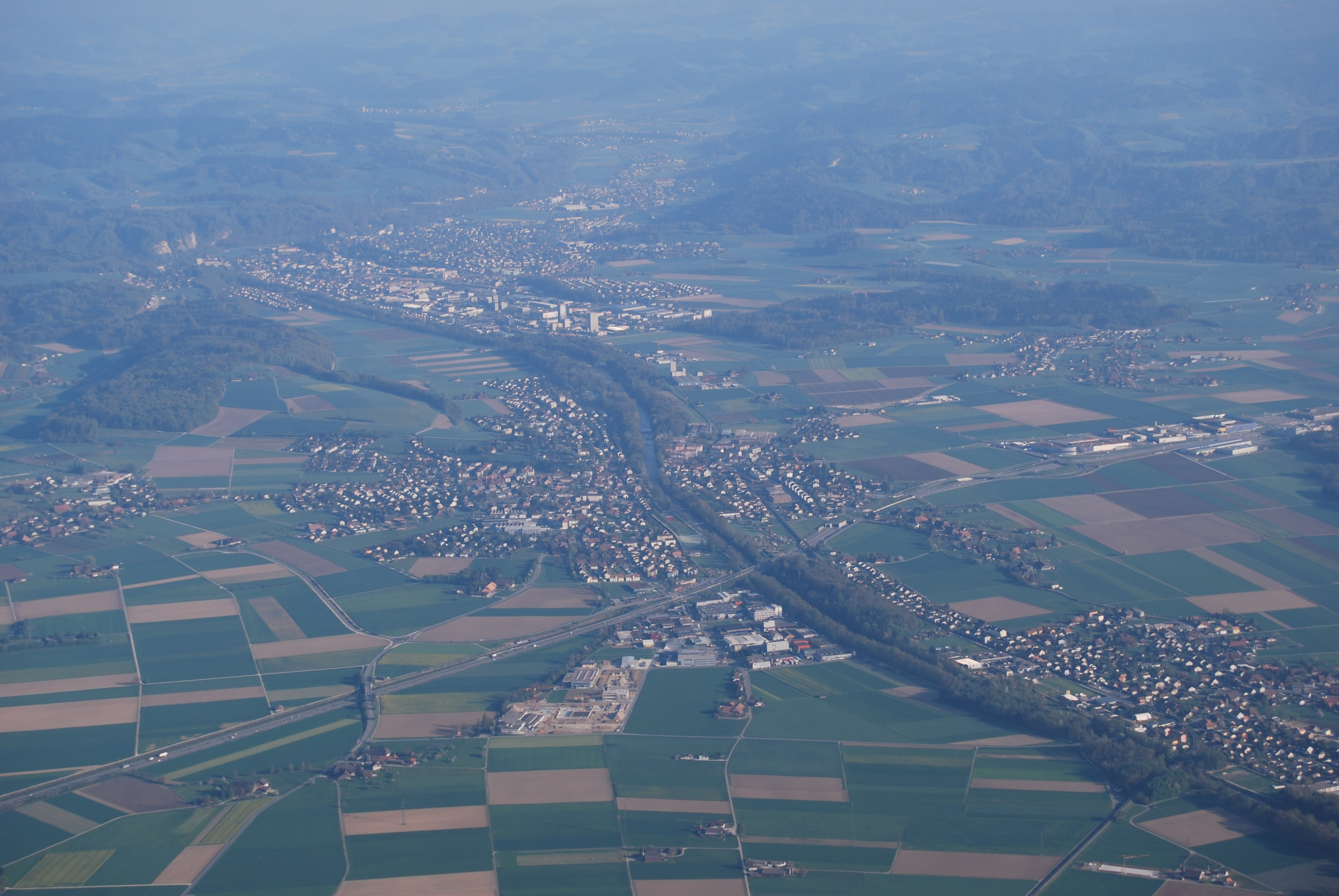 Kirchberg, canton of Bern, SwitzerlandEsperanto: Kirchberg, Kantono Berno, Svislando